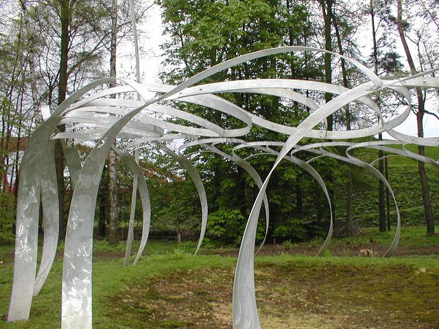 "Willowtwist" Aluminium sculpture by Charles Jencks and his wife Maggie Keswick. Garden of Cosmic Speculation. Dumfries; a single long sheet of aluminium - cut and split twice